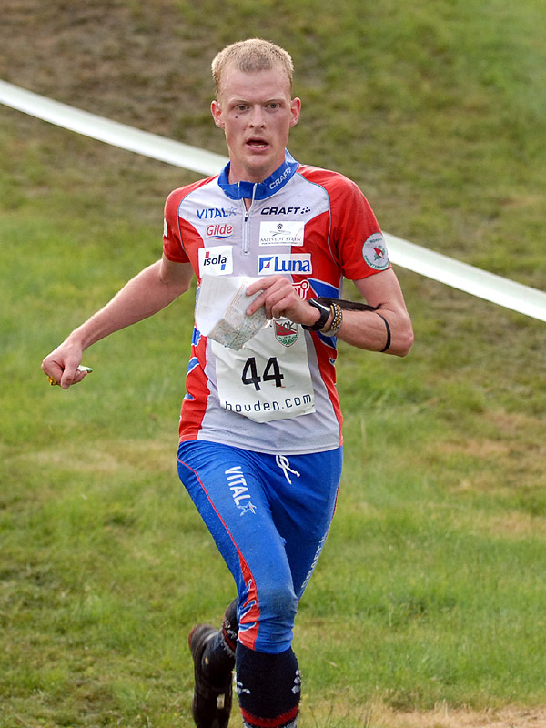 Anders Nordberg at the World Cup event in Norway 2007.